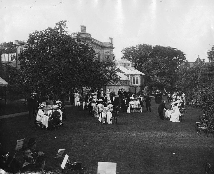 Photograph: Garden party at Mr. Meighen's residence, Montreal, QC, 1908; Wm. Notman & Son; 1908, 20th century; Silver salts on glass - Gelatin dry plate process; 20 x 25 cm; Purchase from Associated Screen News Ltd.; VIEW-8764; McCord Museum.